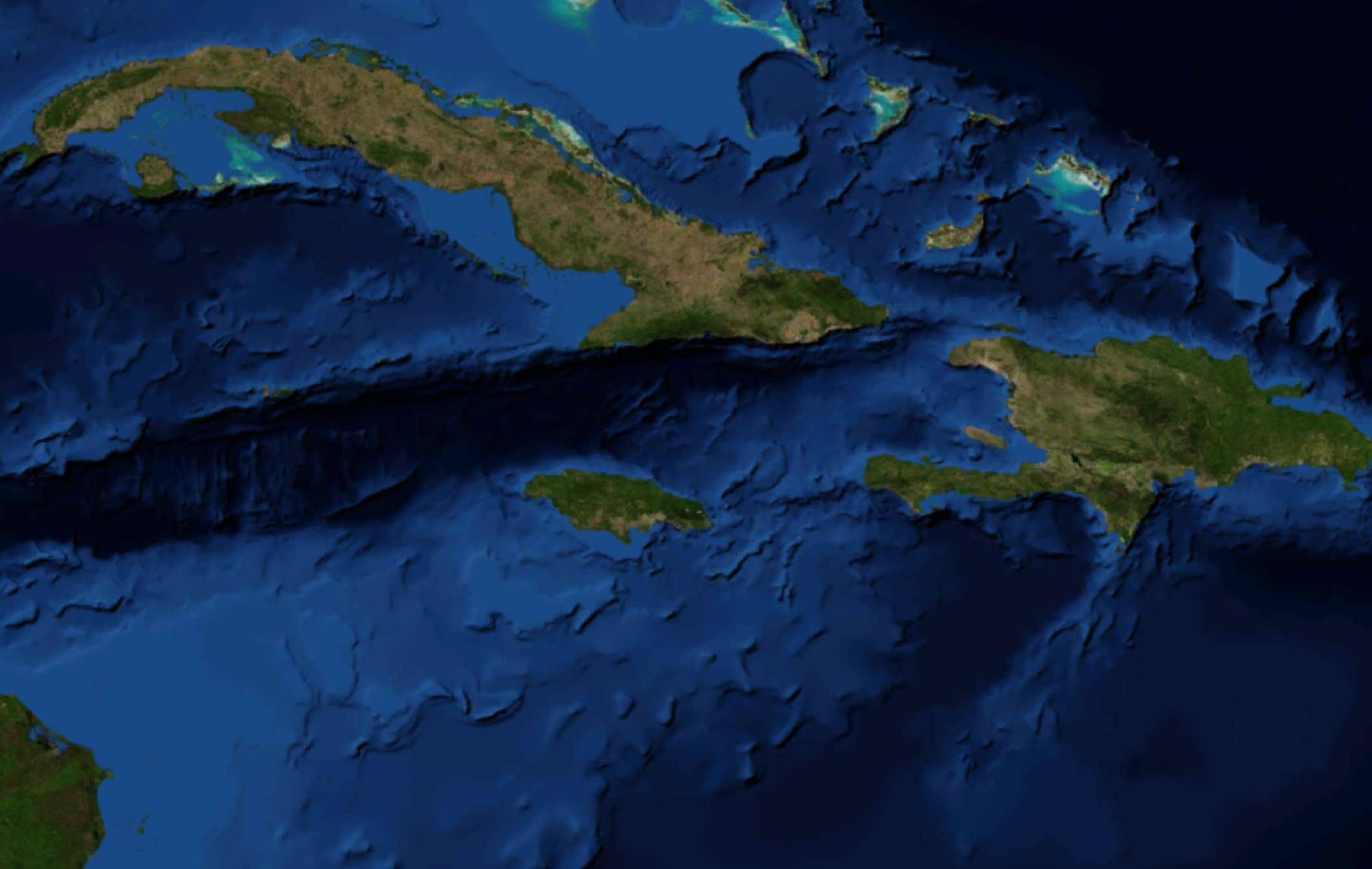 Screen shot from Nasa WorldWind software of NW Caribbean area